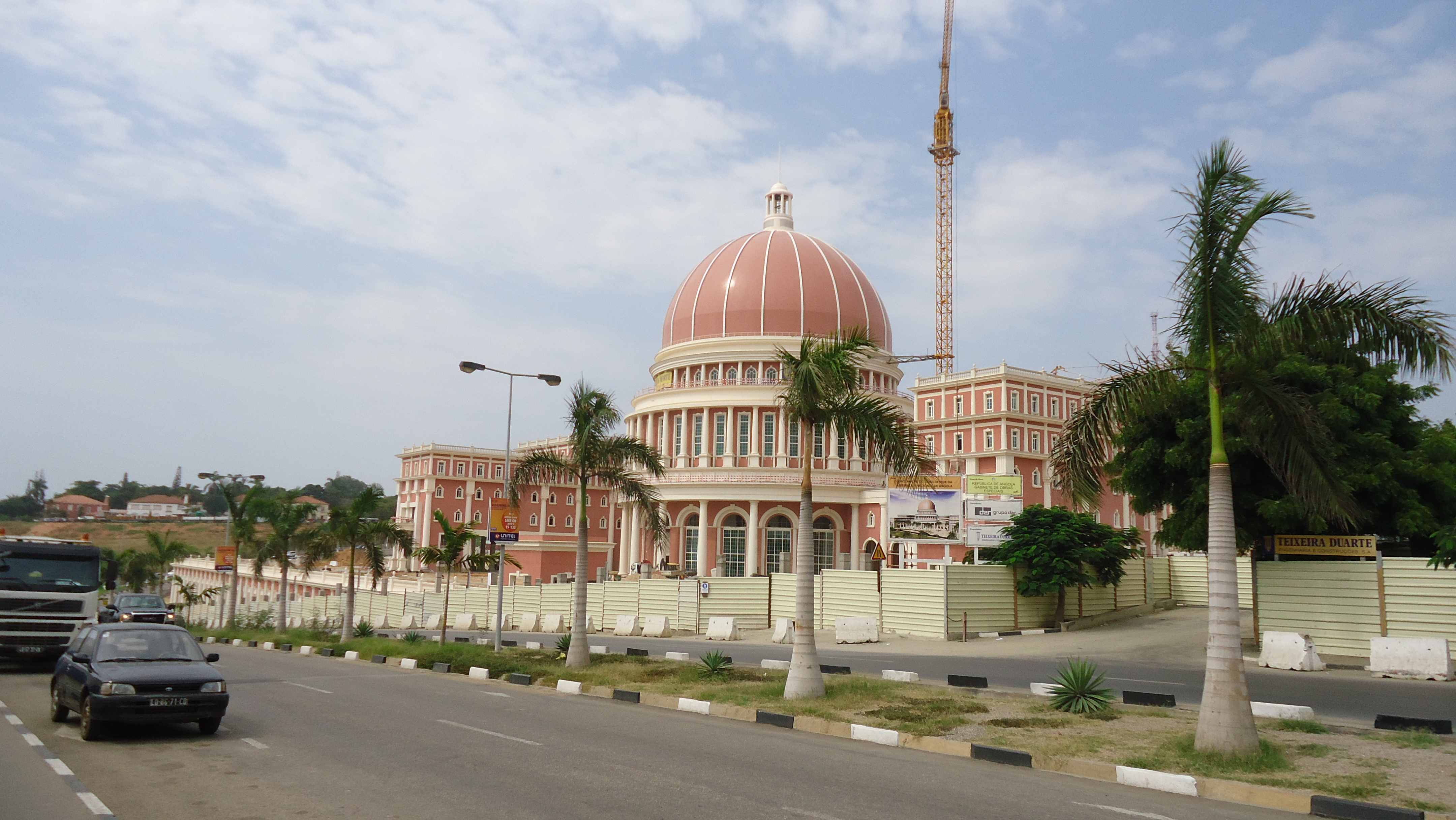 Streets and buildings of Luanda. Photo by Fabio Vanin, Luanda, 2013.